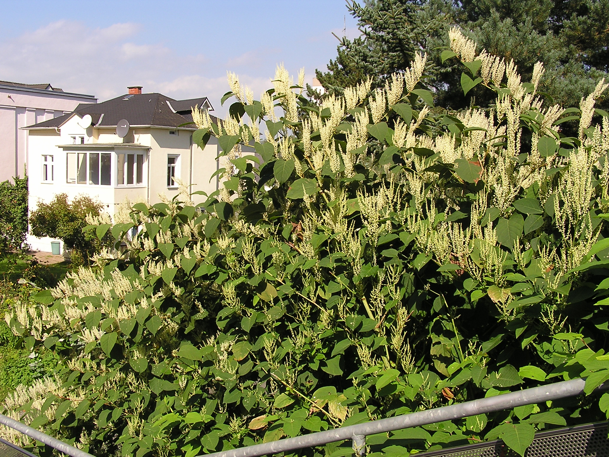 Japanese knotweed